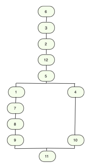 graphic created for article Harris matrix